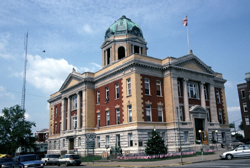 Monroe County Courthouse, located along Main Street in Woodsfield, Ohio, United States. Designed by Samuel Hannaford and built in 1905, it is listed on the National Register of Historic Places.